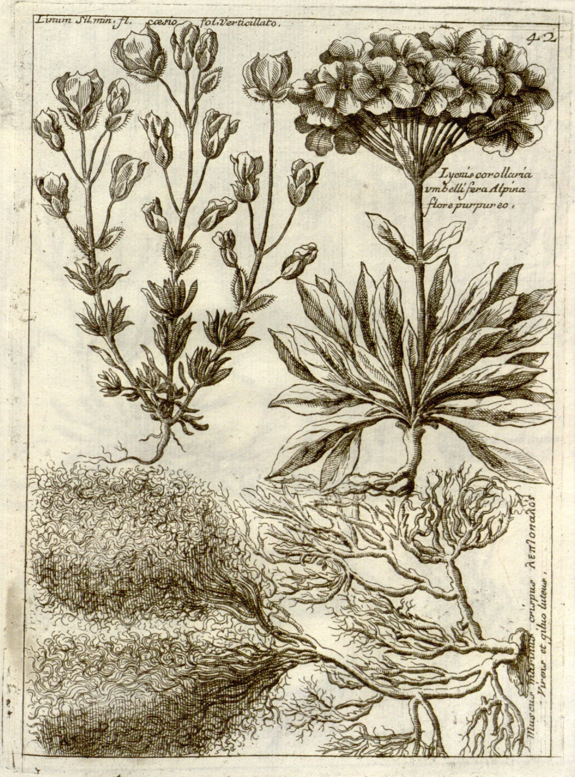 Paolo Boccone (1697), Museo di Piante Rare della Sicilia, Malta, Corsica, Italia, Piemonte, e Germania, etc. plate 42, Linum silvestre, Lycnis corollaria umbellifera alpina, Muscus marinus crispus